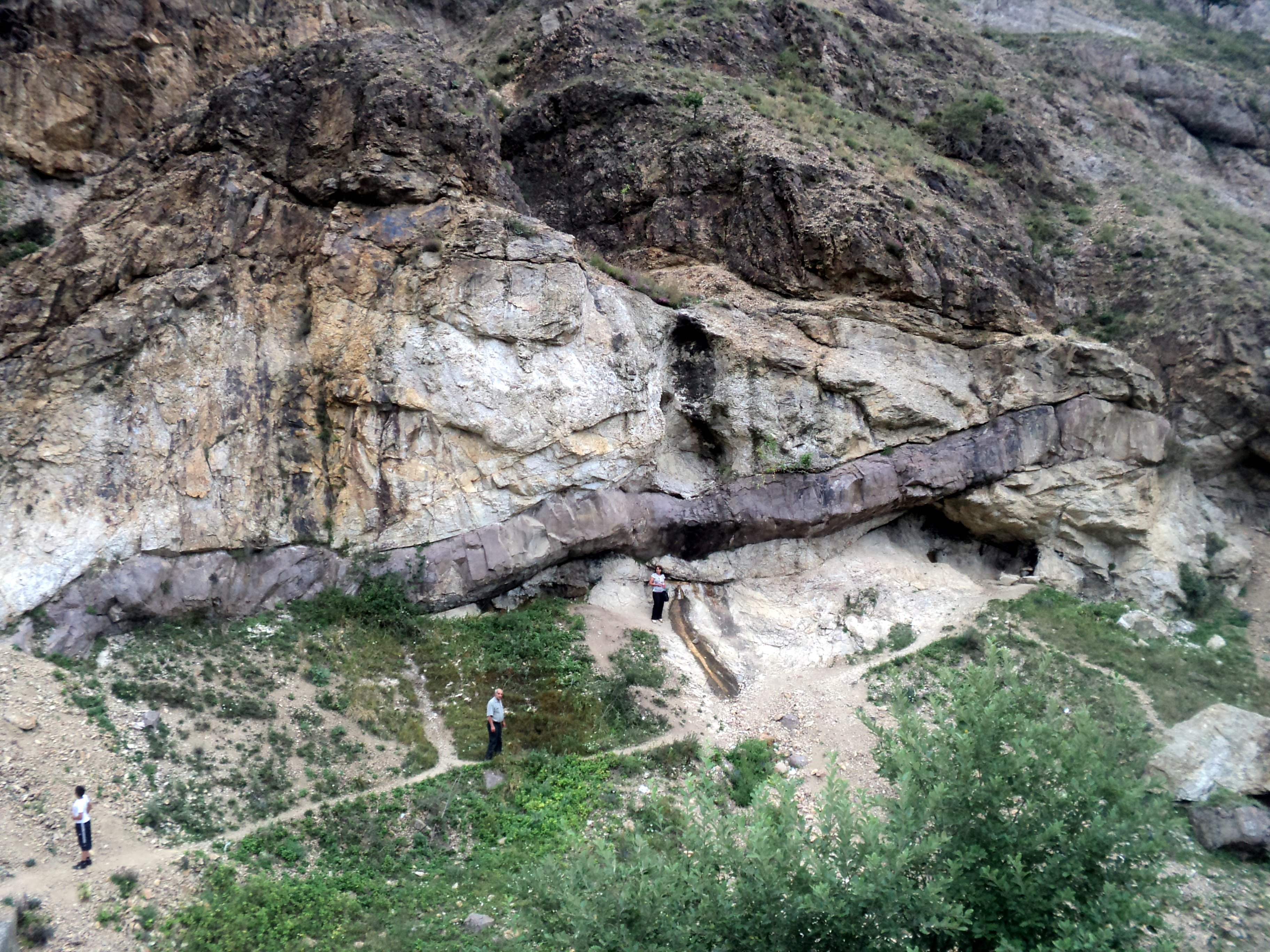 Պառավաքար կամ Օձի Պորտ